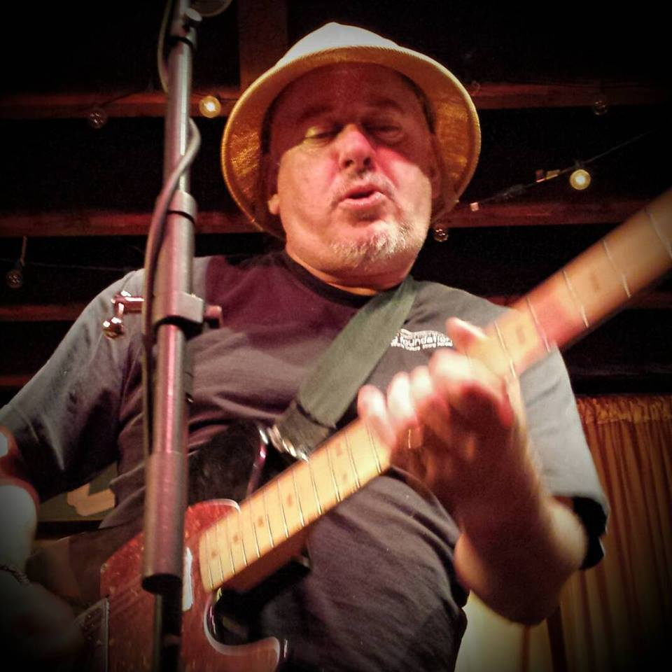 Jon Langford playing with the Mekons at the Hideout, Chicago, IL on 2015.07.15